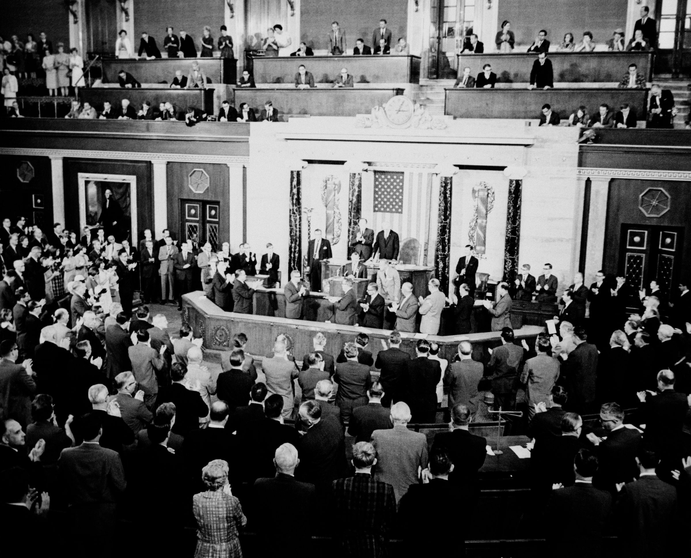 Gemini V Prime Crew, Astronauts L. Gordon Cooper Jr. and Charles Conrad Jr., receive a standing ovation during their visit to the U.S. House of Representatives on 09/15/1965. WASHINGTON, DC. Image ID: S65-44234